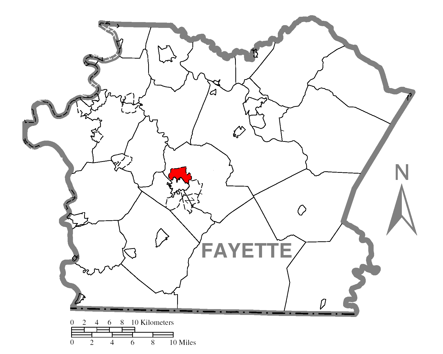 Map of Fayette County higlighting Oliver.